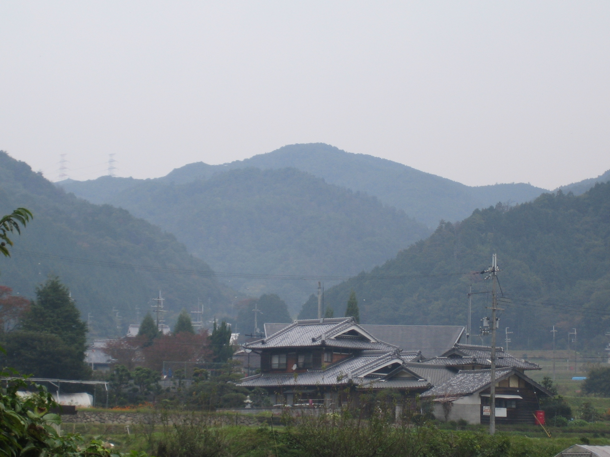 Takadake (Mount Taka) seen from the SSE, on the border of Hyogo and Osaka Prefectures, Honshu, Japan.